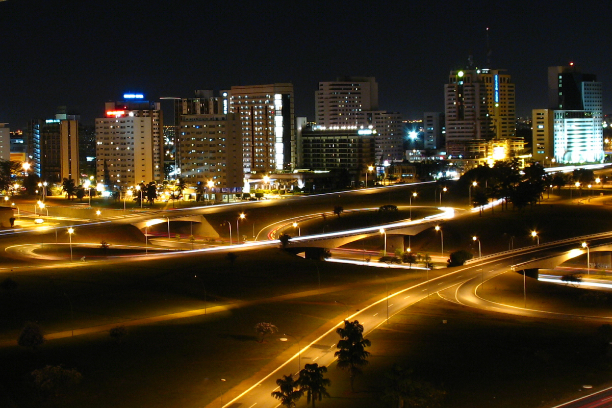 Photo of the SHS (Setor Hoteleiro Sul - Hotel Sector South), in downtown Brasília.